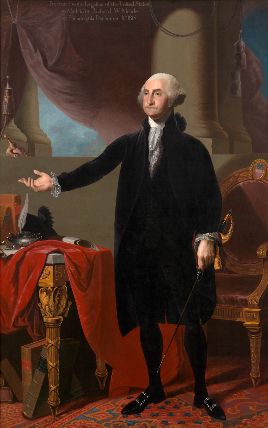 George Washington (circa 1805-18), unknown artist (after Gilbert Stuart), Rayburn Room, U.S. House of Representatives, U.S. Capitol, Washington, D.C.